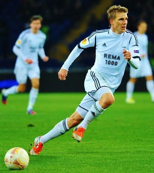 Bořek Dočkal